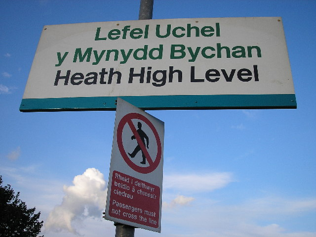 Bilingual railway sign. Heath high level railway station obviously supplementary. Lefel Uchel y Mynydd Bychan